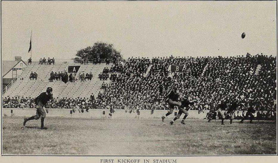 Lynn Bomar's opening kickoff against Michigan in 1922, the first kickoff at Dudley Field